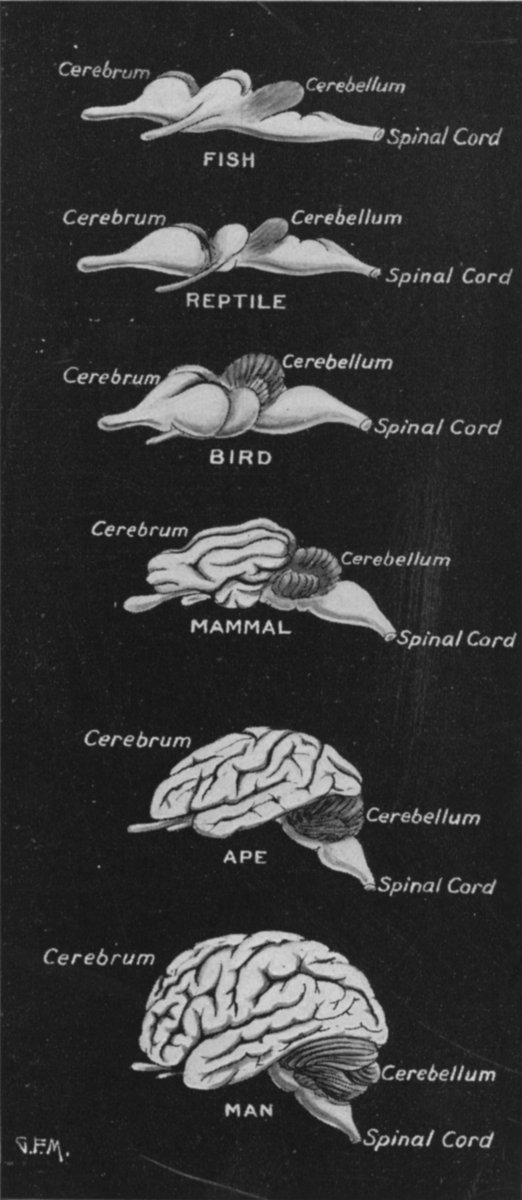 Image from the book "THE OUTLINE OF SCIENCE" by J. Arthur Thomson